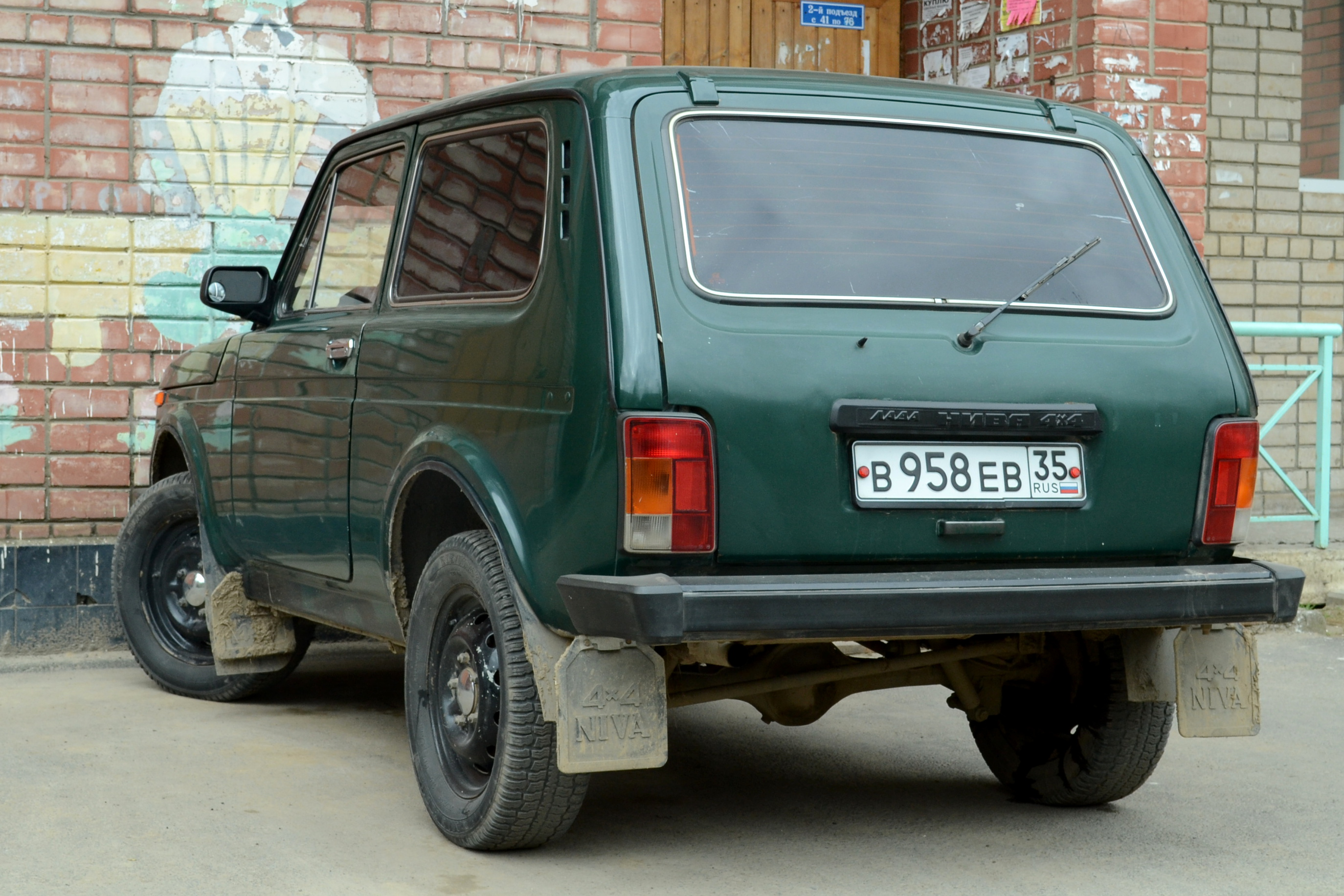 Lada Niva